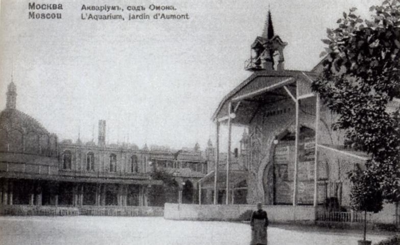 Vaudeville theatre in the downtown Moscow.